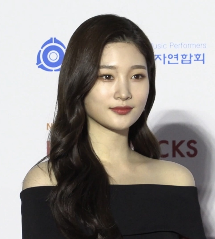 Chaeyeon at Gaon Music Awards red carpet on January 8, 2020 02